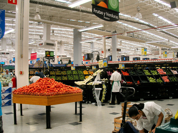 The produce section of a Wal-Mart Supercenter in the city of Puerto Vallarta, Jalisco, Mexico. The presence of fresh fruits and vegetables is one of the key features which distinguishes Wal-Mart Supercenters from traditional Wal-Mart stores. Photographed by user Coolcaesar on October 31, 2005.